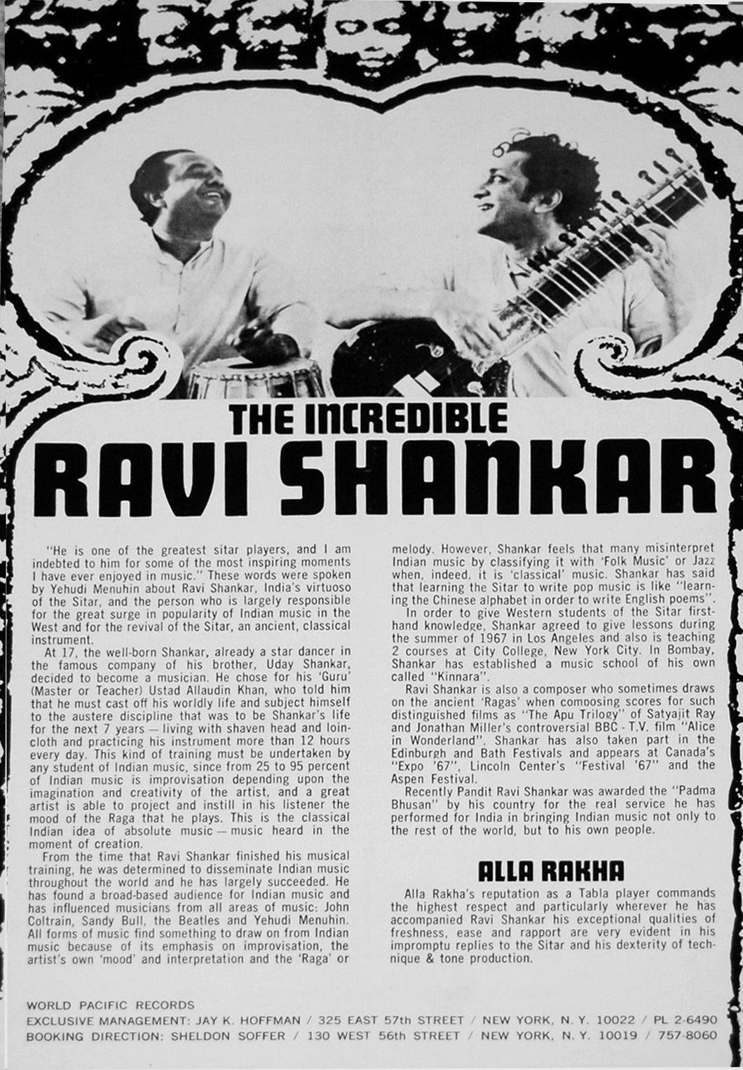 RAVI SHANKAR 1967 Concert Flyer Handbill Wisconsin